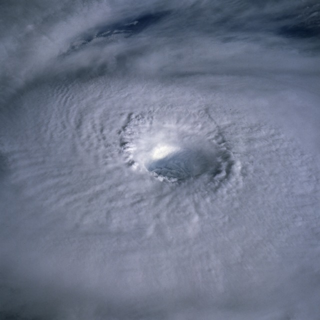 STS51I-37-0083 Eye Of Typhoon Odessa, Pacific Ocean August 1985 This spectacular, oblique view shows the eye of typhoon Odessa, southeast of Japan in the Pacific Ocean. The eyewall drops into the center of the image. Outboard from the eye are large thunderstorms billowing on top of the cloud mass and gravity waves. An astronaut's perspective from low Earth orbit provides details of large storm systems that cannot be resolved from other meteorological satellites.